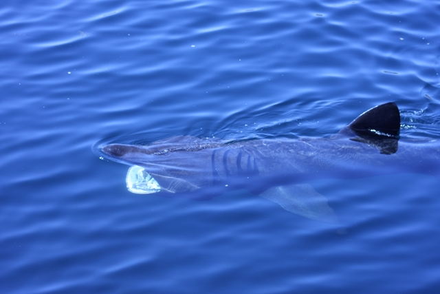 Basking Shark Feeding Dursey Sound, West Cork, Ireland